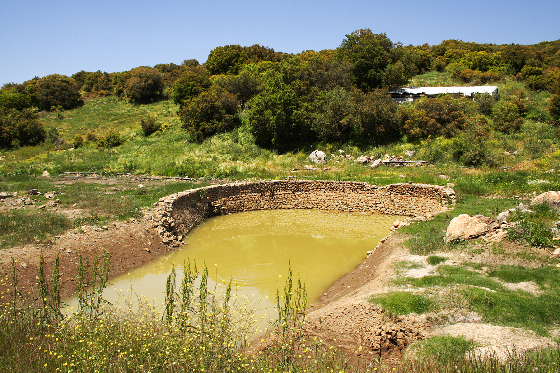 One of 7 Ponors of the southern part of the very large Tripoli-Plateau (polje). The plateau has no natural water outlet, which is a relatively frequent phenomenon in the Karstbasins of Arcadia (island of the Peloponnese in Greece). When precipitation of winters is exceptionally rich, the polje is flooded, a temporary lake may result even nowadays. In such a case the ponors in this karst depression become vital. See also the photo: Image:katavothra_ponor_Tripoli-Polje_Taka_Plain_Peloponnese_Greece.jpg